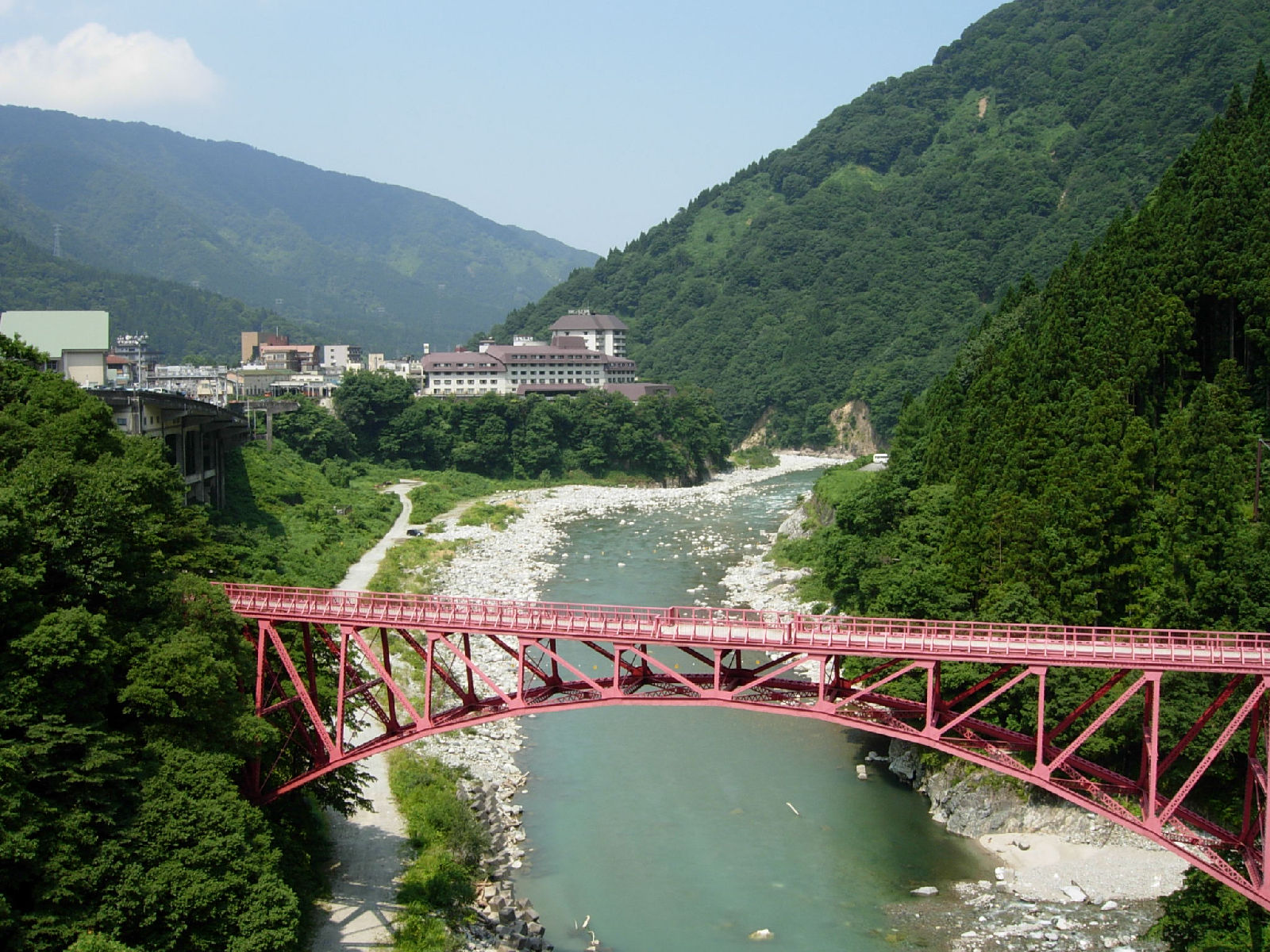 The view from New Yamabiko Bridge (Kurobe Gorge Railway) in Japan.